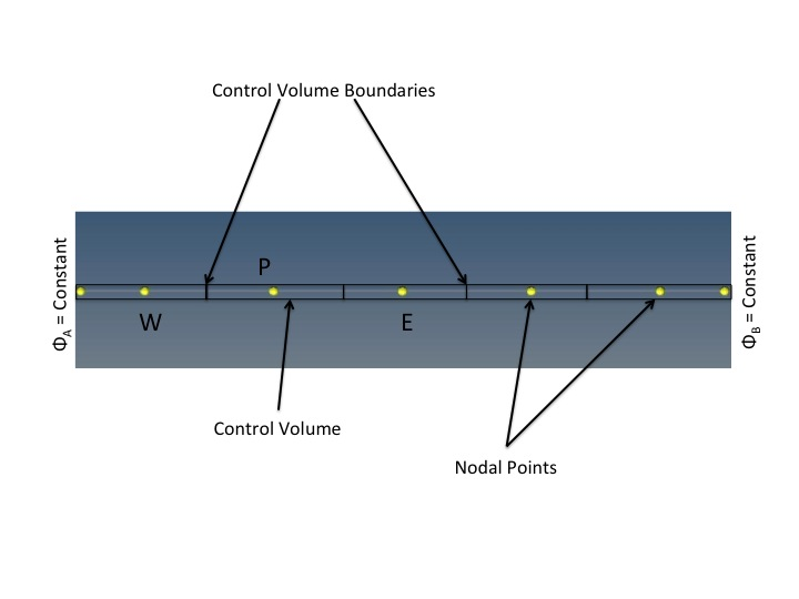 the steady state diffusion in one-dimension diffusion